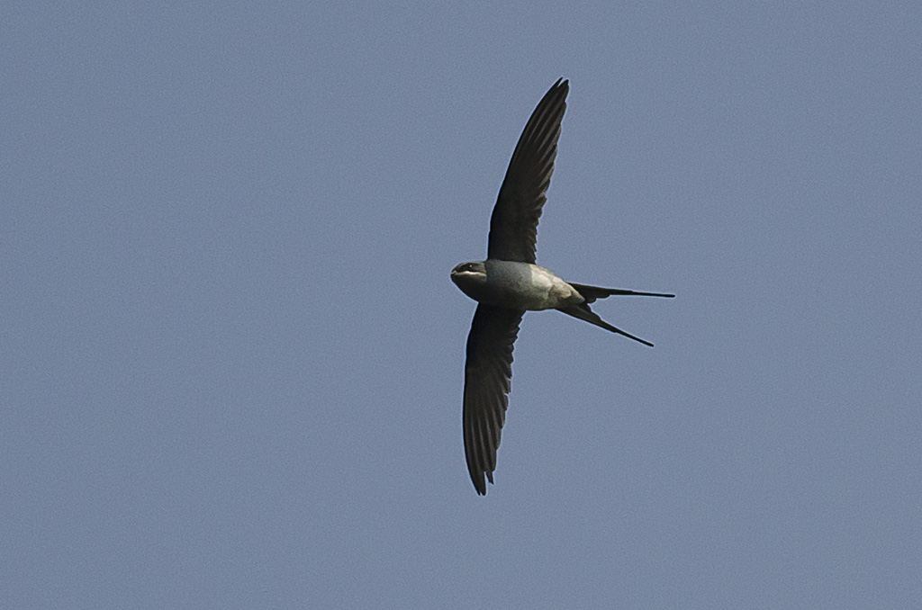 Crested Treeswift Female in flight, Thattekad, Kerala, India